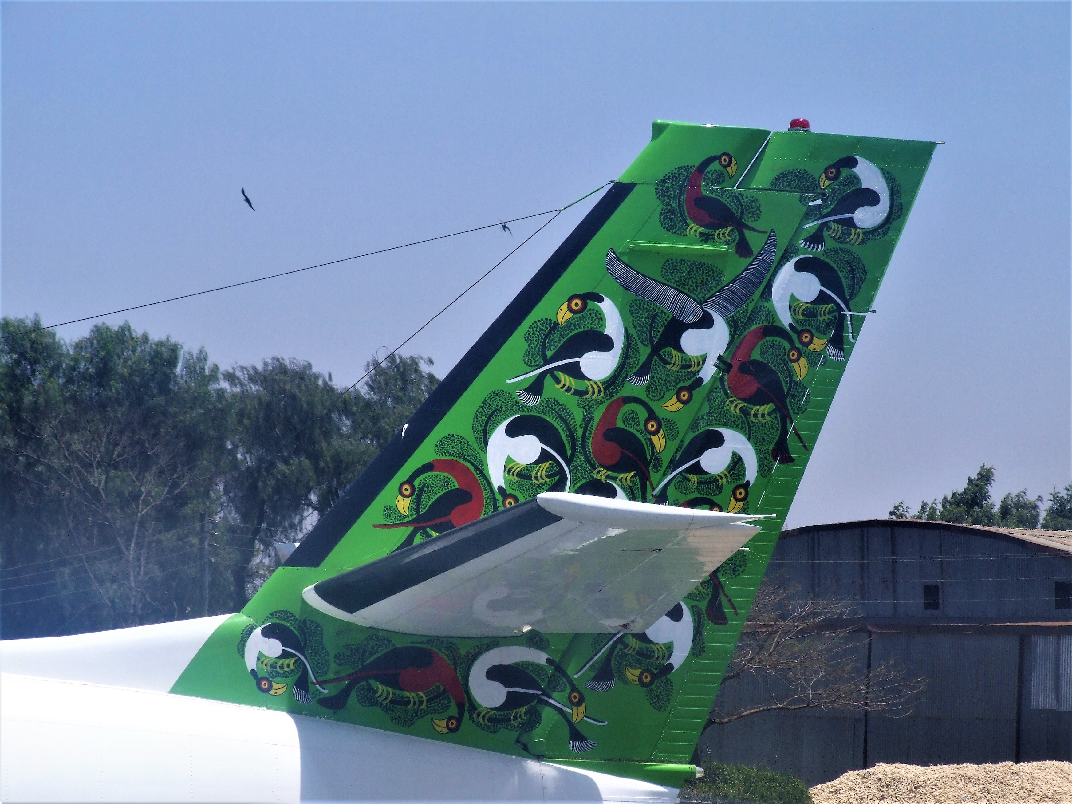 Tailfin on an airplane painted in a Tingatinga fashion. Picture taken 2008